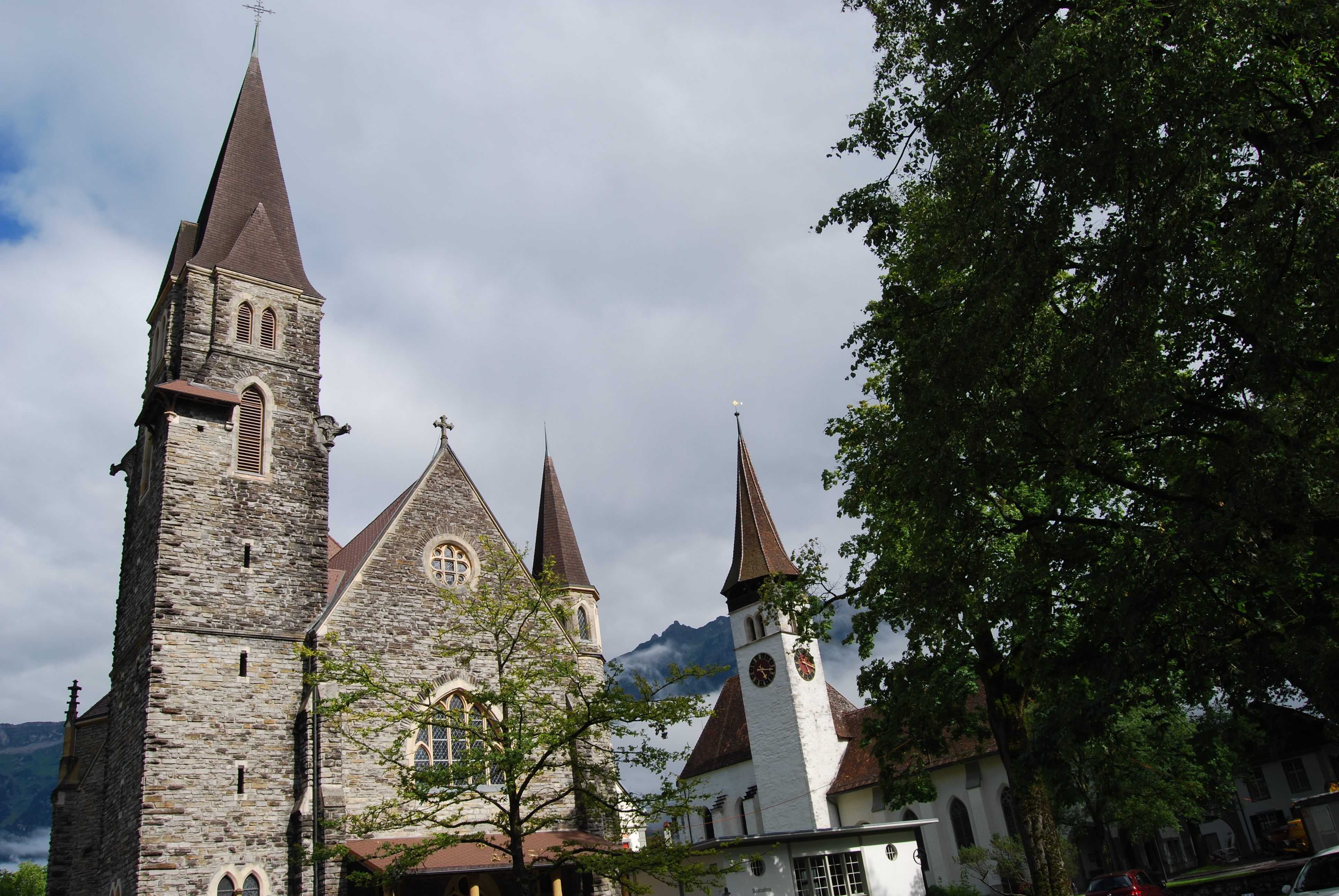 Catholic and protestant church of Interlaken, canton of Bern, Switzerland